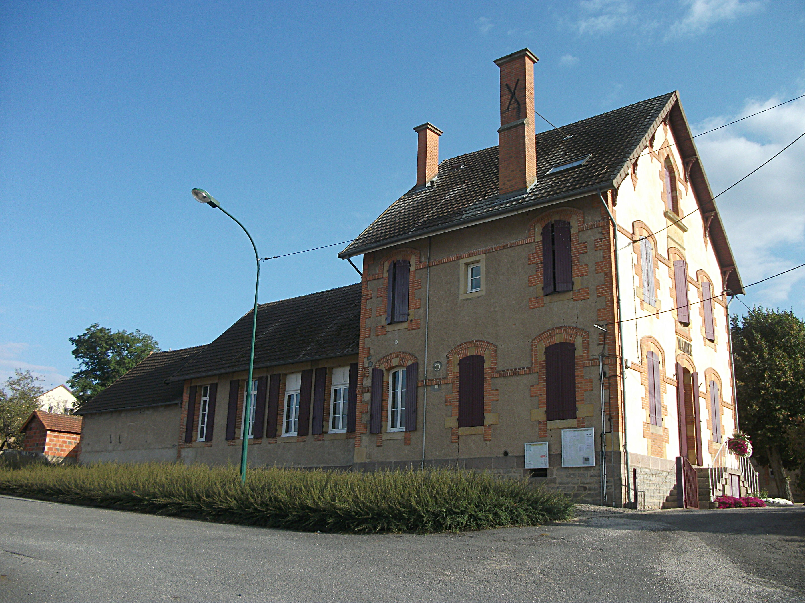 Town hall of Luneau, Allier, Auvergne-Rhône-Alpes, France. [16897]